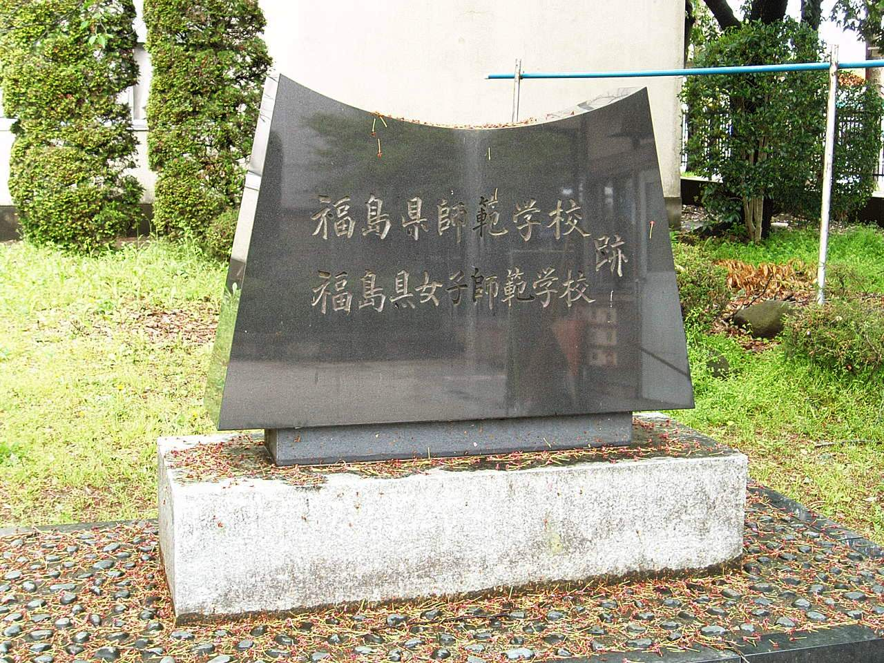 A memorial of Fukushima Prefectural Girls' Normal School, one of the predecessors of Fukushima University, located in Sugitsuma-cho, Fukushima, Fukushima Prefecture, Japan.